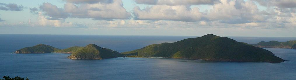 Guana Island, British Virgin Islands, view from the ridge road on Tortola. Photograph taken by User:Legis on 22 October 2007.